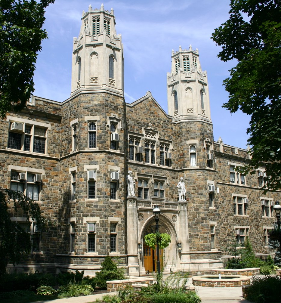 Packard Lab at Lehigh University